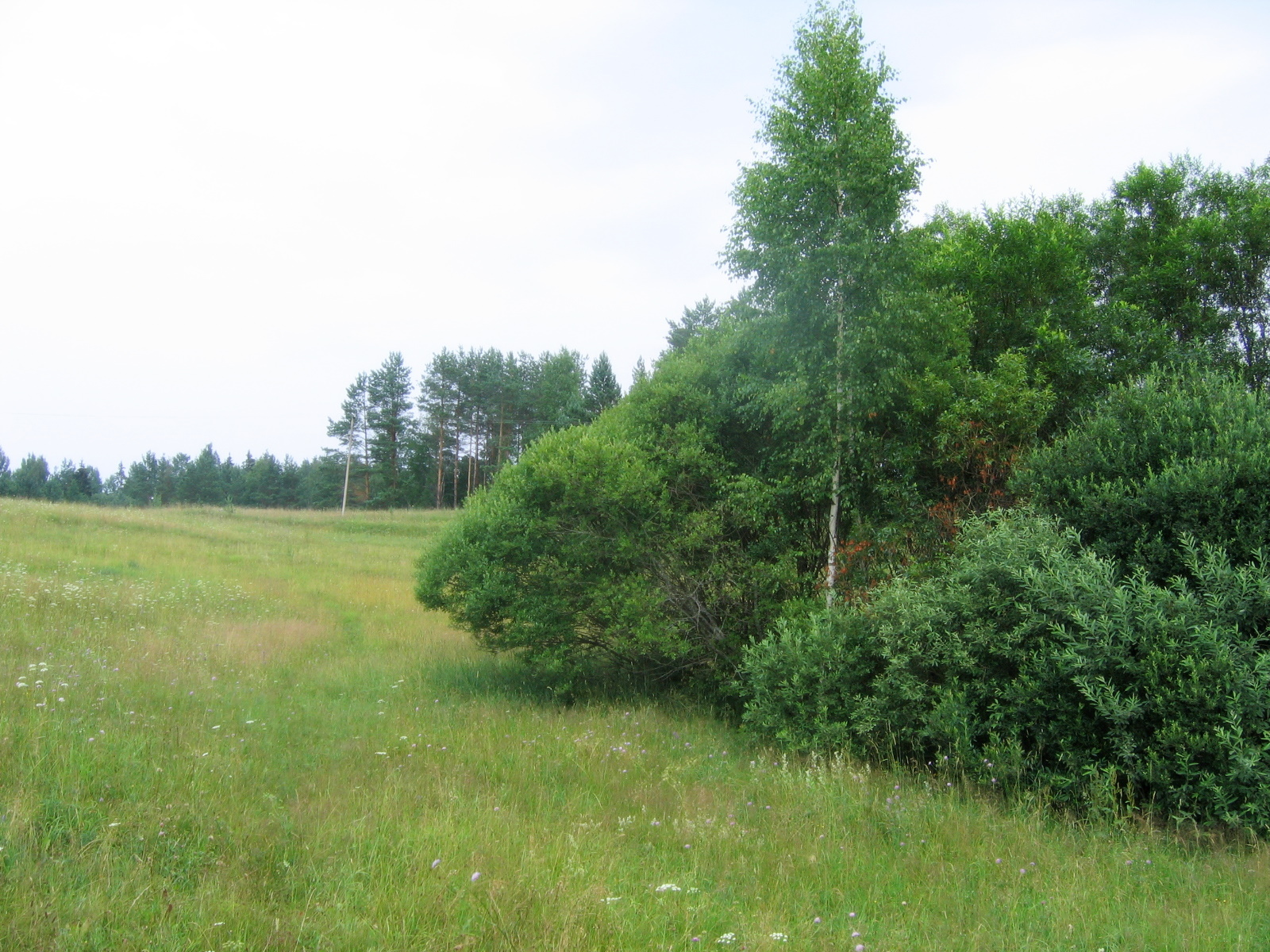 Stankevichi village